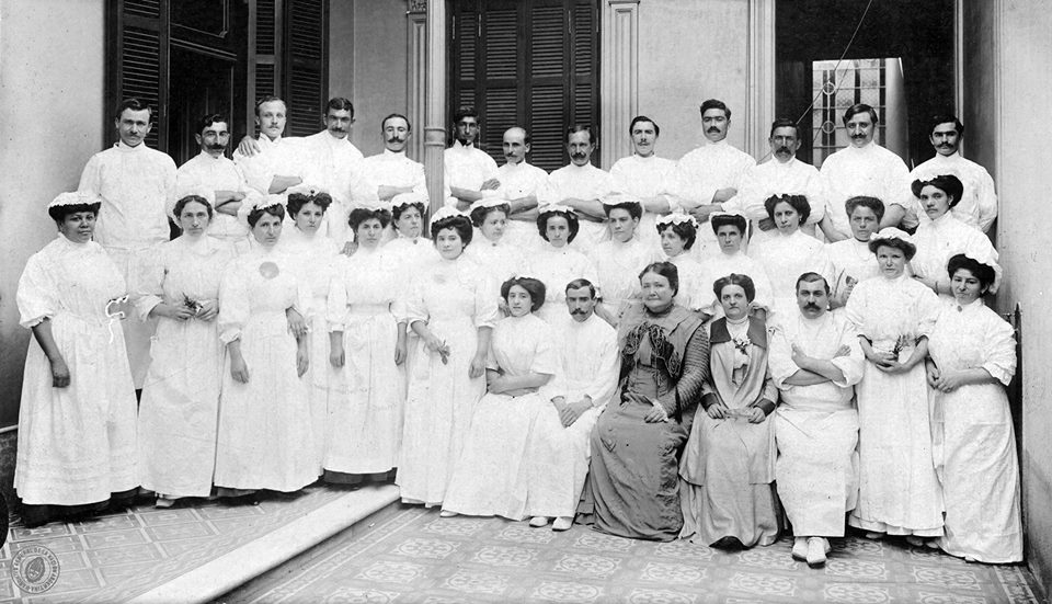 Dr. Cecilia Grierson (in dark clothes) posing with his medicine students.